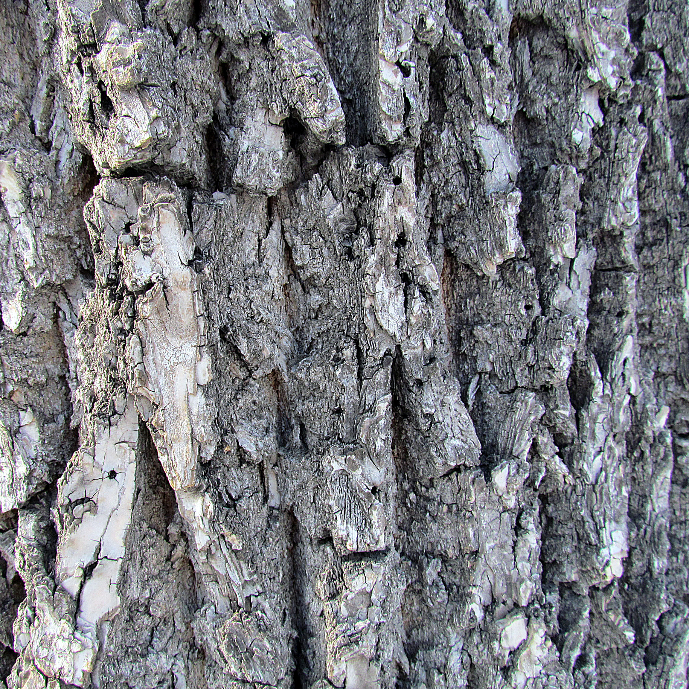 Fraxinus americana bark